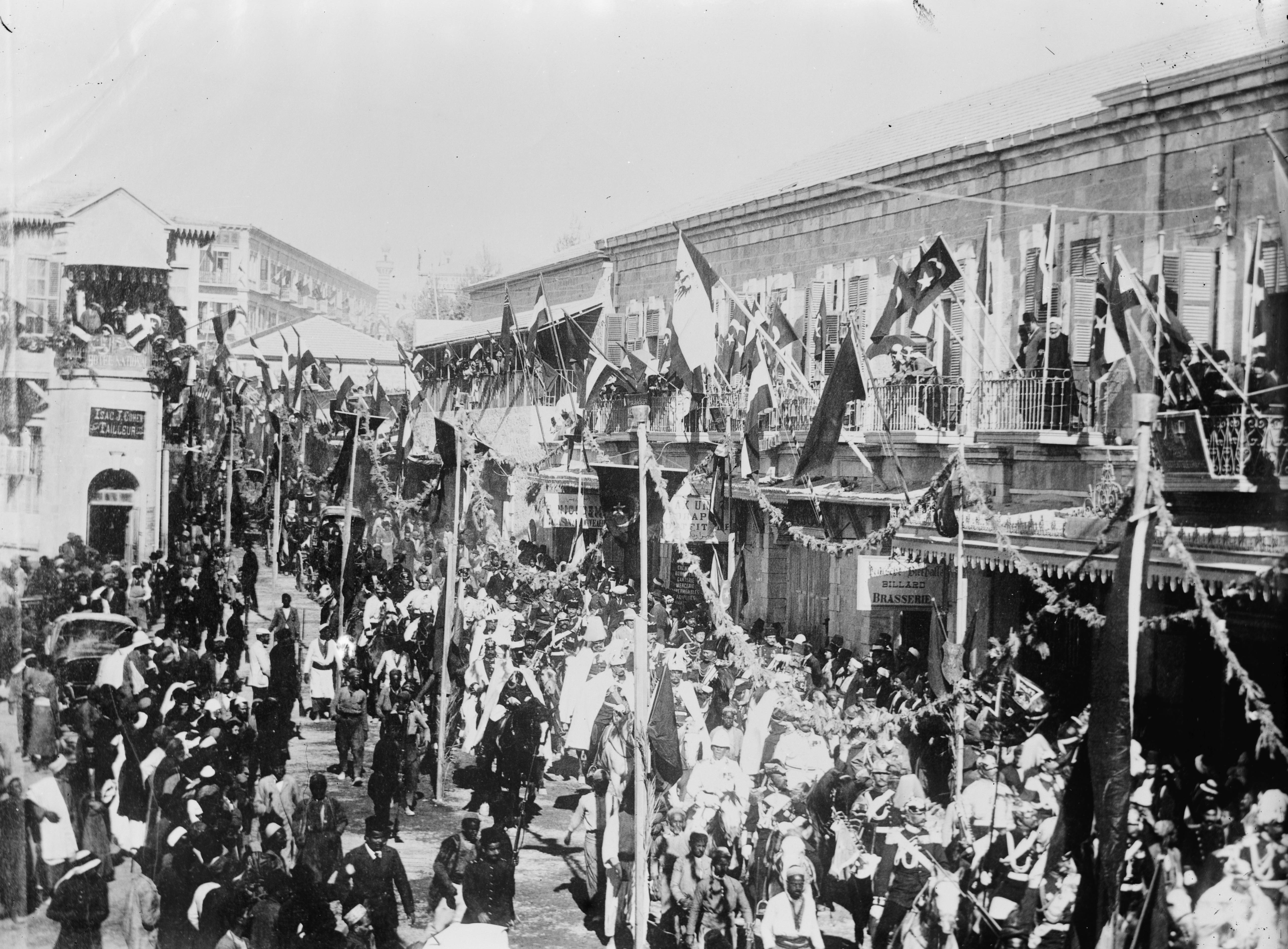 State visit to Jerusalem of Wilhelm II of Germany in 1898. Emperor and Empress.